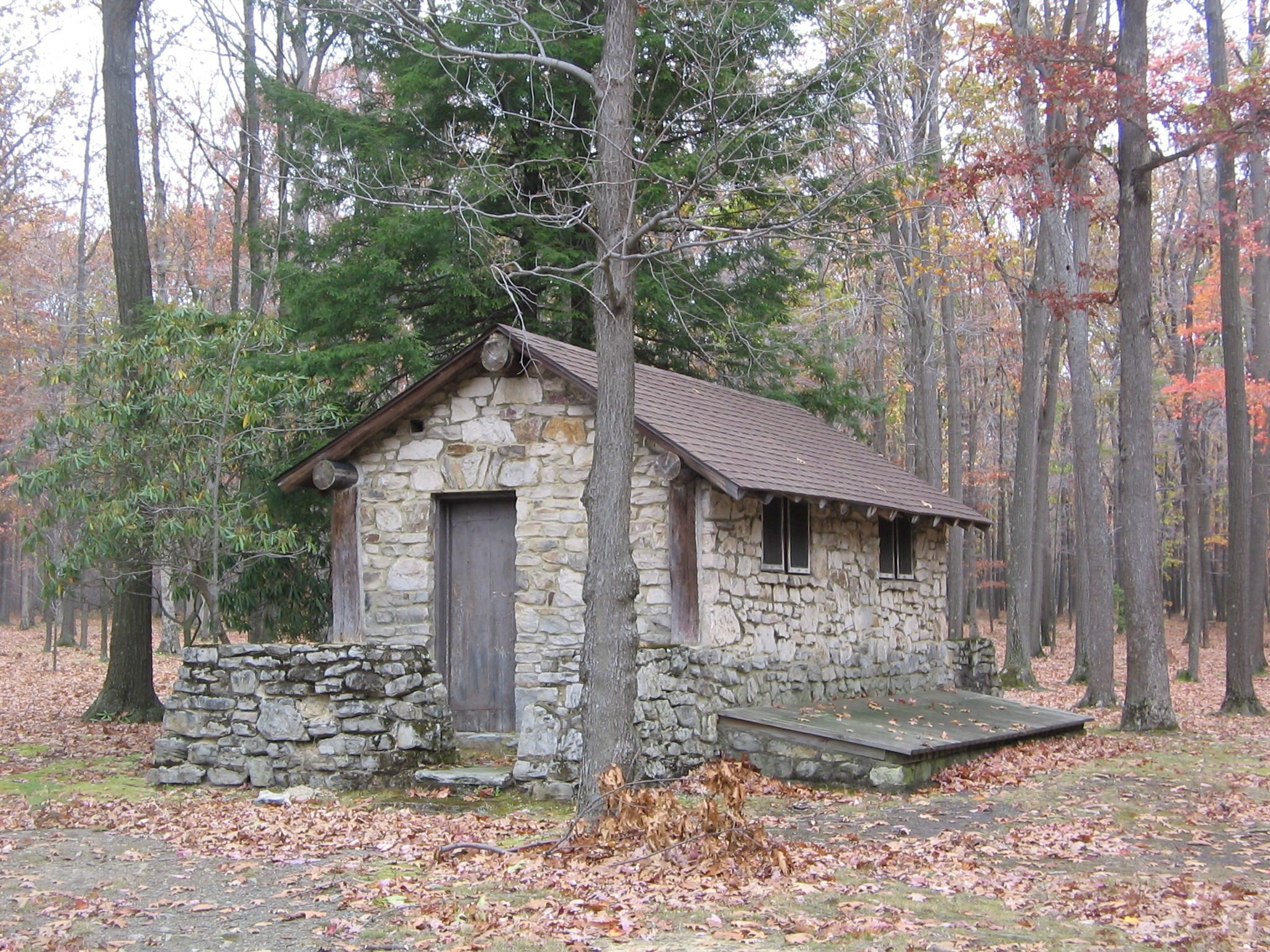 CCC-built stone latrine at S.B. Elliott State Park in Pine Township, Clearfield County, Pennsylvania, USA is listed on the National Register of Historic Places.